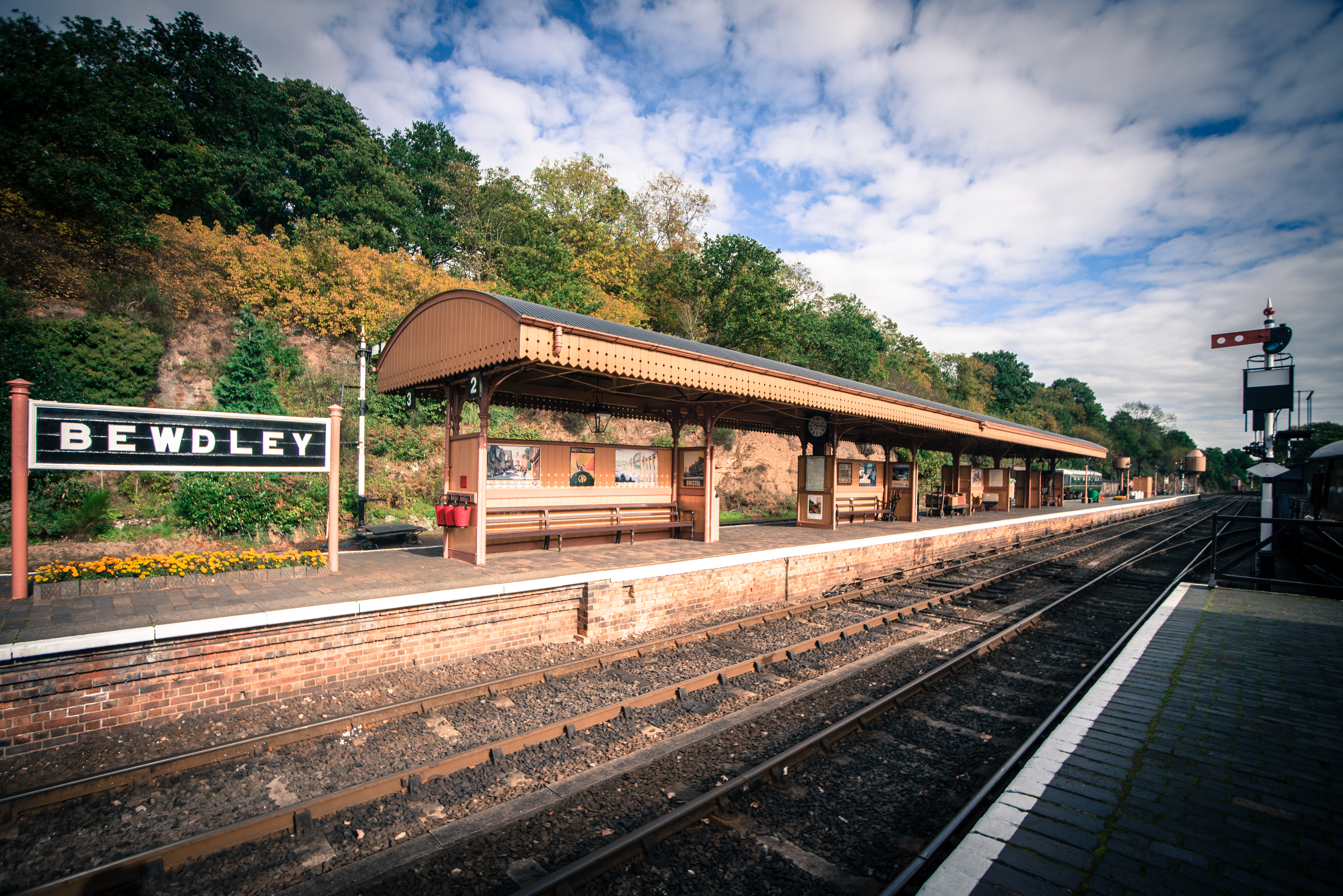 Bewdley Railway Station as part of the heritage railway line the Severn Valley Railway, Platforms 2 and 3 as viewed from Platform 1.